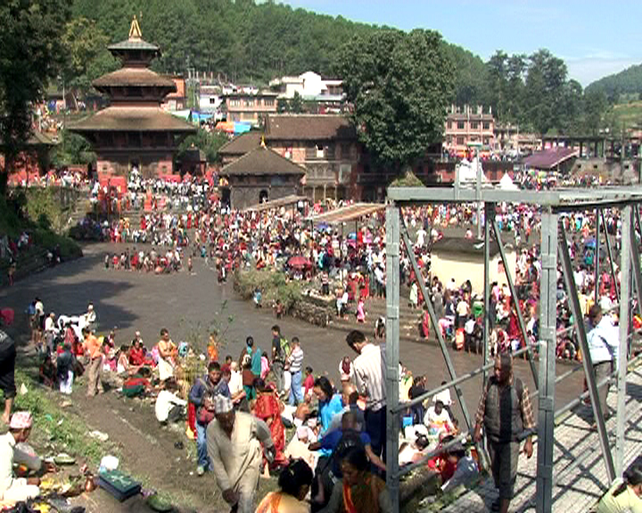 Gokarneshwor temple in Nepal.